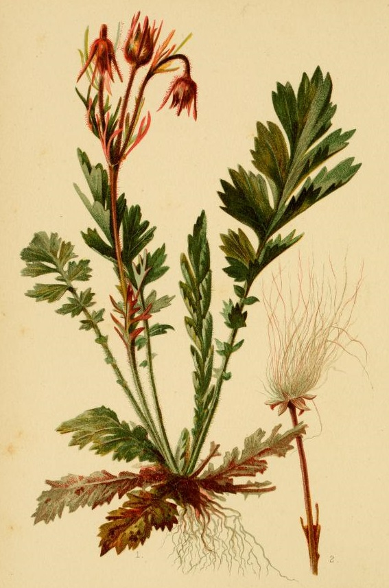 Geum triflorum, Three-flowered Avens Title: The native flowers and ferns of the United States in their botanical, horticultural and popular aspects Year: 1878 (1870s) Authors: Meehan, Thomas, 1826-1901 Subjects: Wild flowers -- United States Ferns -- United States Publisher: Boston : L. Prang and Co. Text Appearing Before Image: the best border plants we have. It is inflower most of the month of May. 4 TRADESCANTIA VIRGINICA. SPIDERWORT. The western boundary for the Spiderwort seems to be formedby the Rocky Mountains. The writer has found it on the foot-hills near Pikes Peak, and it is reported to have been met within higher elevations. Its chief home appears to be from Floridanorthwestward, not favoring much the New England States.It varies very much in its choice of location. In the East, weusually find it in low meadows, — even some that are quitewet, — among the grass. On the prairies, it is found in muchdrier places as a rule; while, in Colorado, I have found it in drysand, and one would almost class it there with plants which lovearidity. It is rare that we find such a happy disposition amongvegetable beings. Explanation of the Plate. — i. The most common form found in Kansas.—2. Smoothform (leaf from a flower stem). — 3. Varieties of color. — 4. Base of the plant, withfibrous roots. .Plate Text Appearing After Image: TPPIIM.